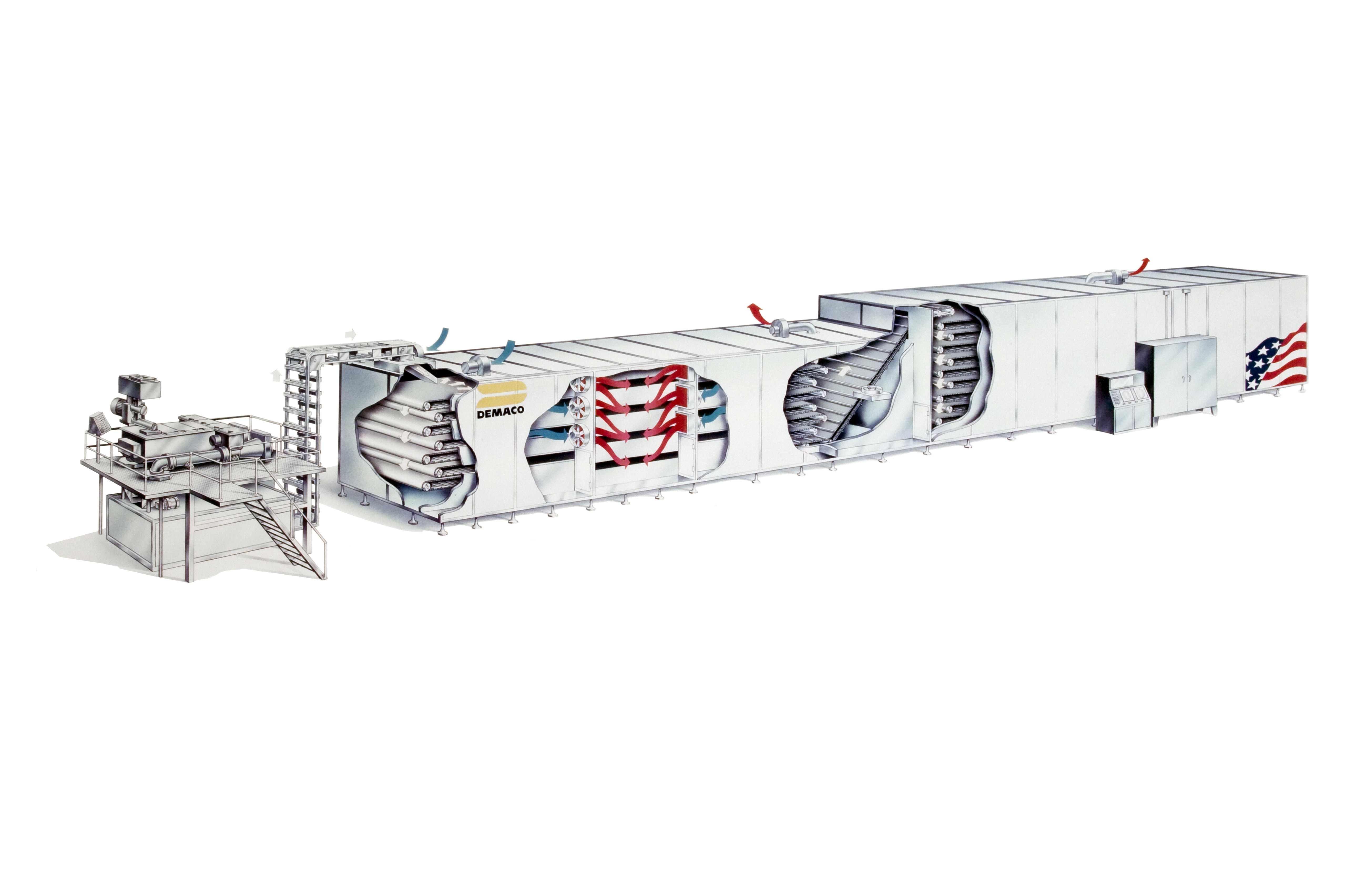 DEMACO Short Goods Dry Pasta Line. This machine makes 1000 kilograms/hour of short goods pasta, such as elbows. The line consists of a DEMACO extruder, a preliminary dryer and a final dryer. Product flows from left to right with the DEMACO extruder on the left at the beginning of the line and the dryer on the right. The cutaway shows the inside of dryer with arrows depicting the air flow for drying the pasta.